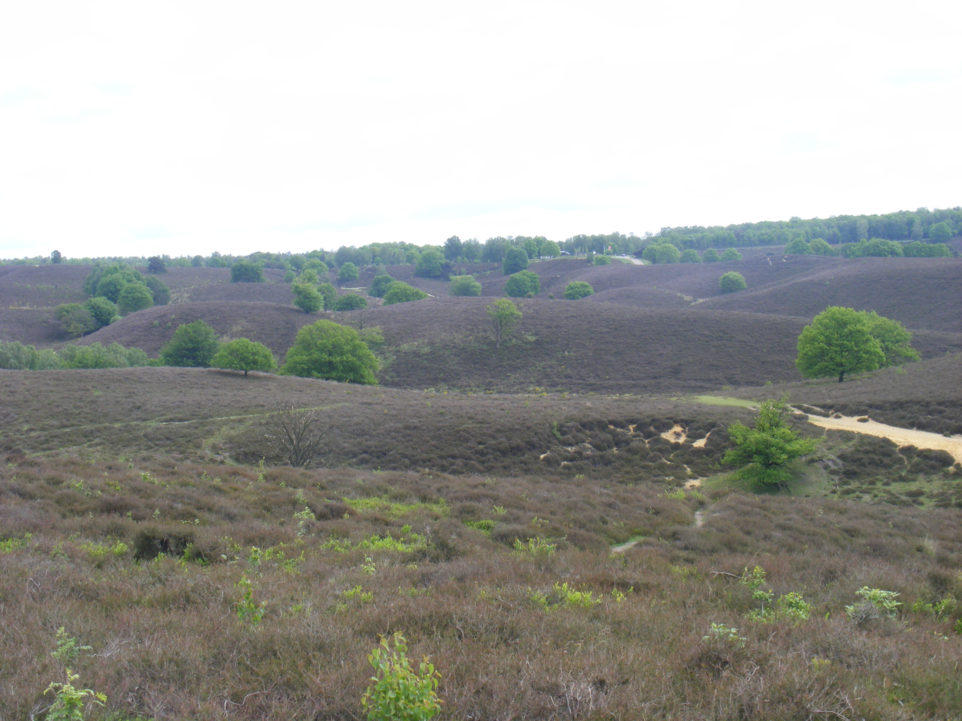 This is a photo or sound file made in Veluwezoom National Park in the Netherlands, with the main subject of the file in the category: landscapes